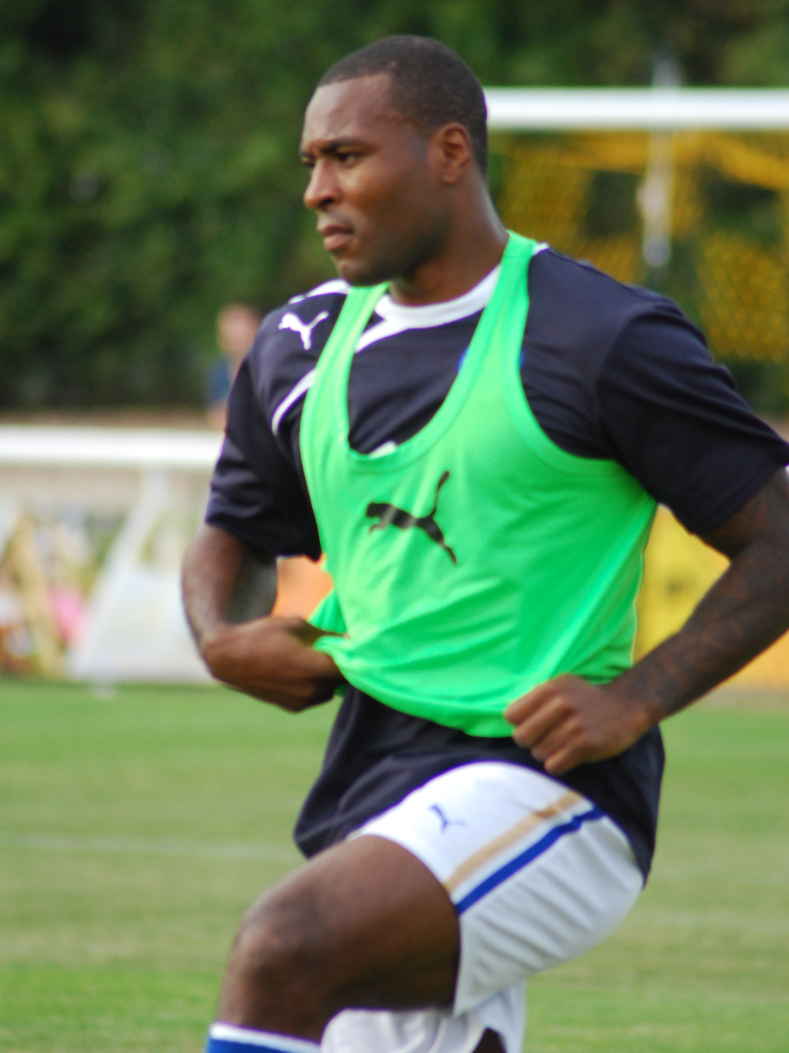 Wes Morgan Warming up vs Leaminton Spa